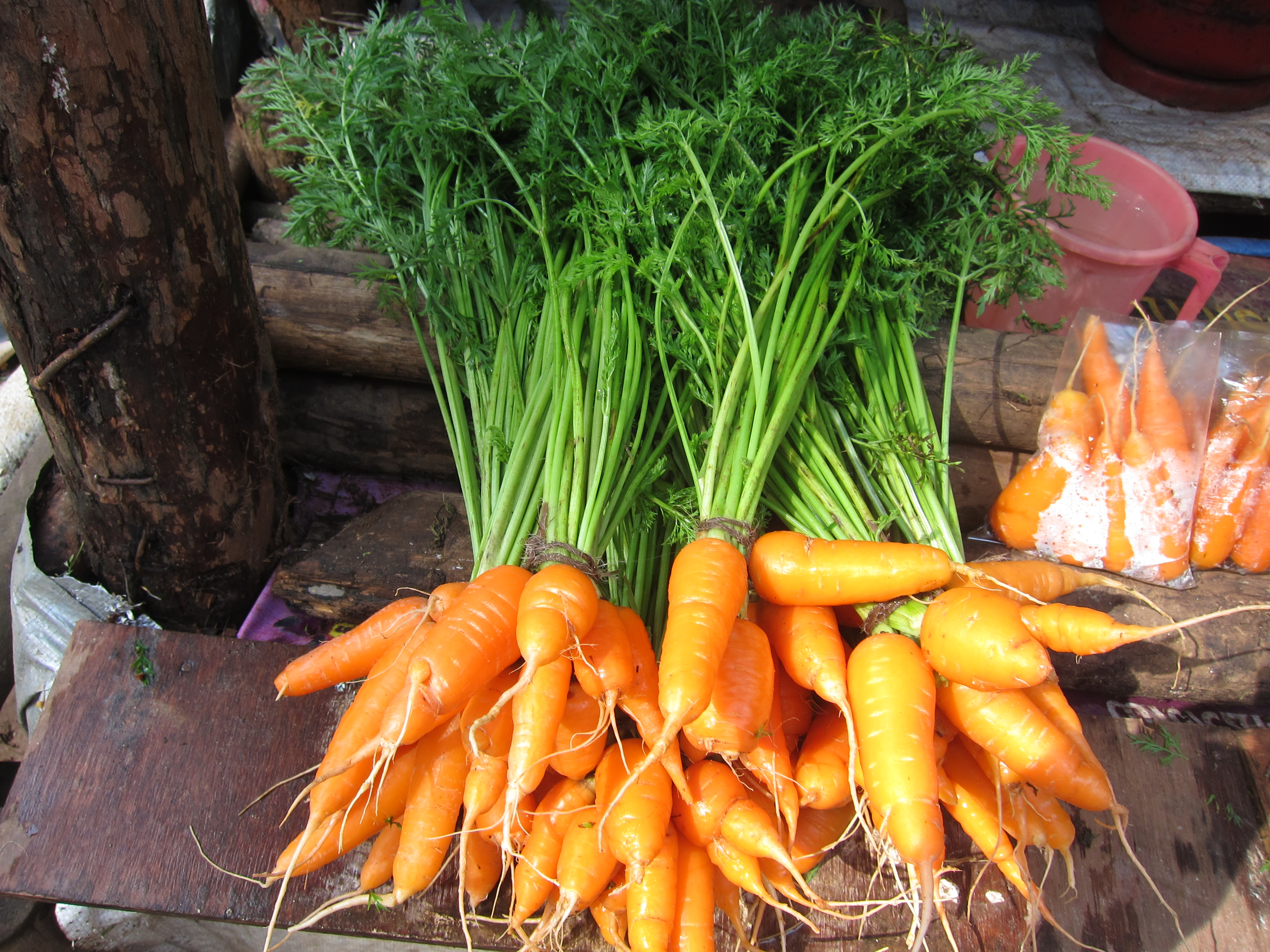 Carat